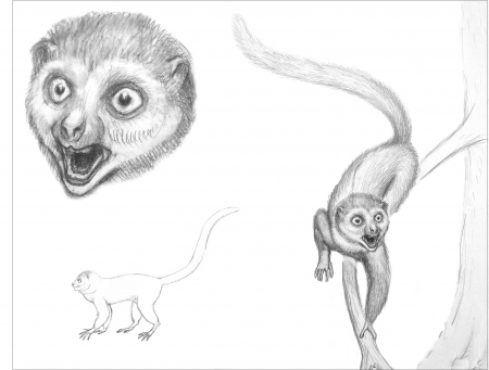 Life restorations of Darwinius masillae n. gen., n. sp. Sketches are by Bogdan Bocianowski.